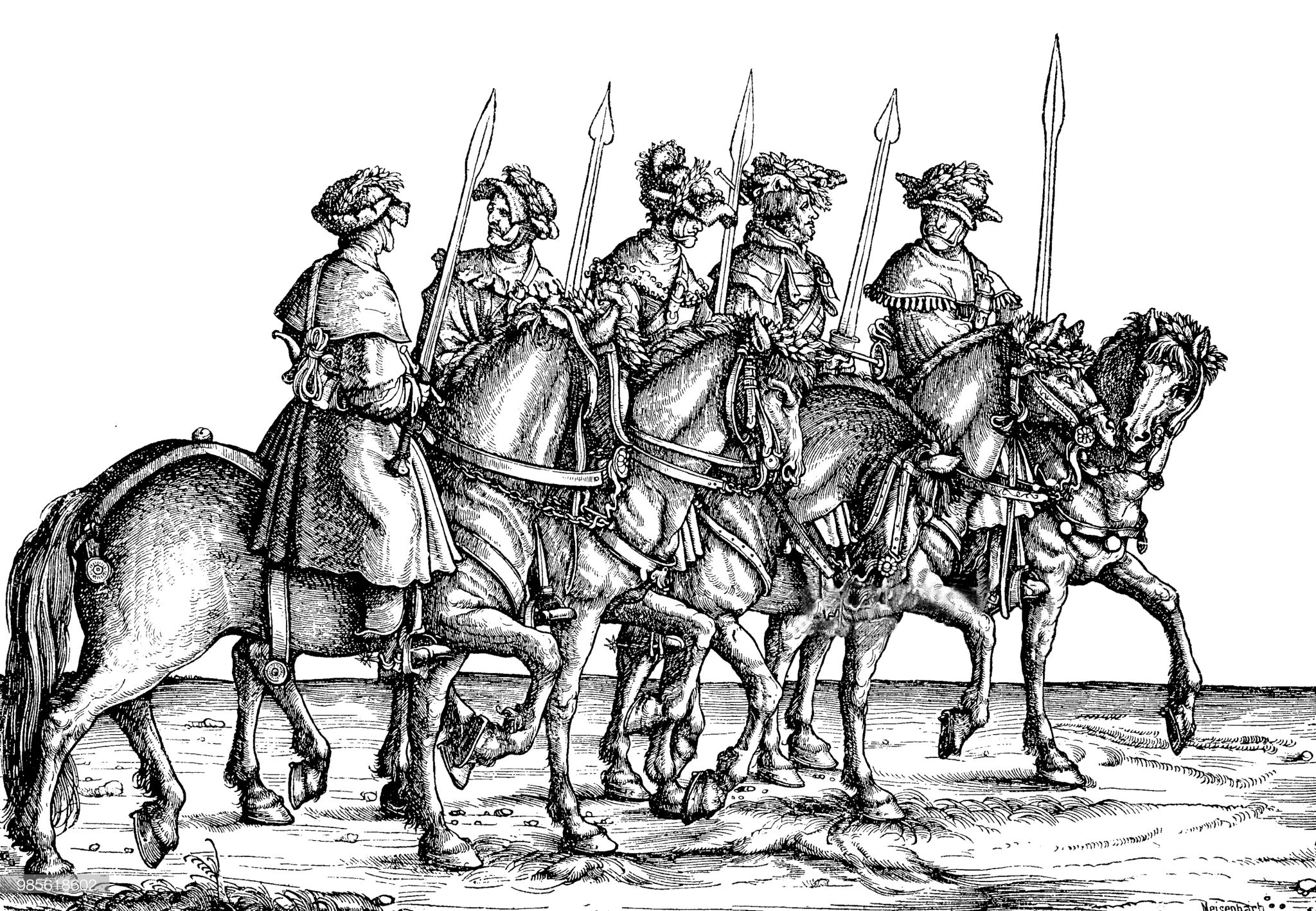 Wild boar hunters with boar swords - detail from the "Triumphal Procession of Maximilian I.", 1526 (image with removed watermark)